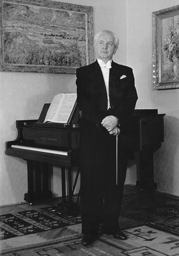 Břetislav Bakala (1897-1958), Czech music composer and conductor